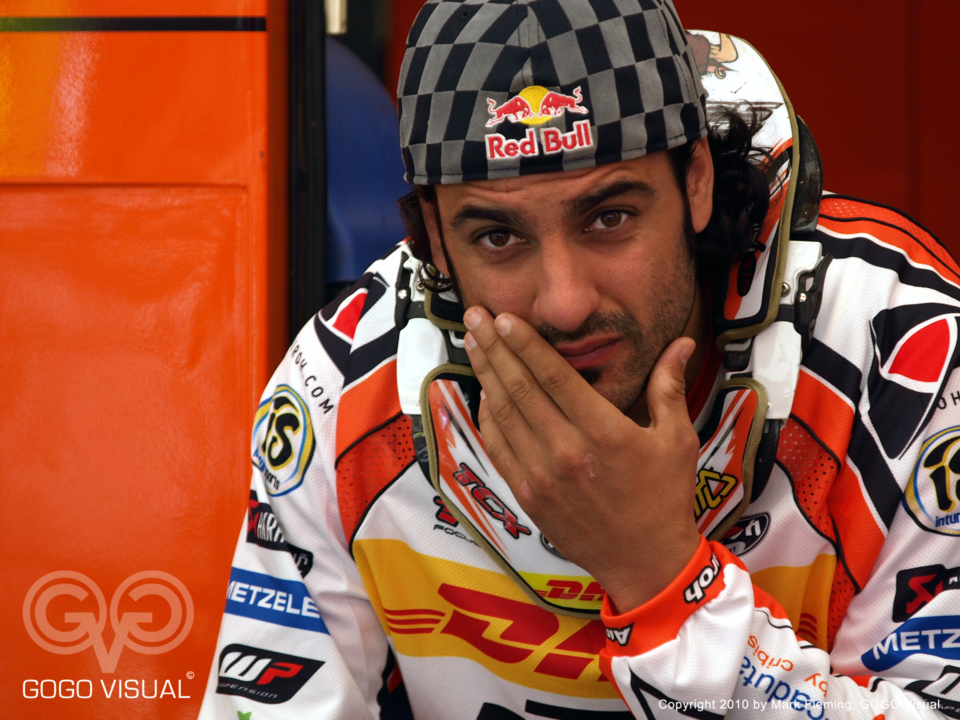 FARIOLI KTM Enduro Factory Team Ivan Cervantes from Catalonia, at 2010 WEC round in Lovere (Italy)